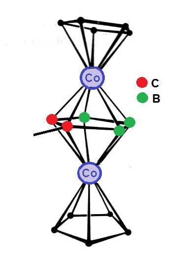 Molecular structure of a Co2C2B3 triple-decker complex